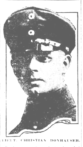 Picture of Christian Donhauser, German Flying Ace from the First World War.